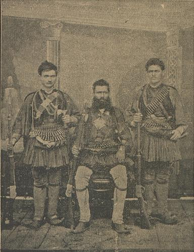 Portrait of bulgarian revolutionary Stoyan Popov Gushle from Kosinets